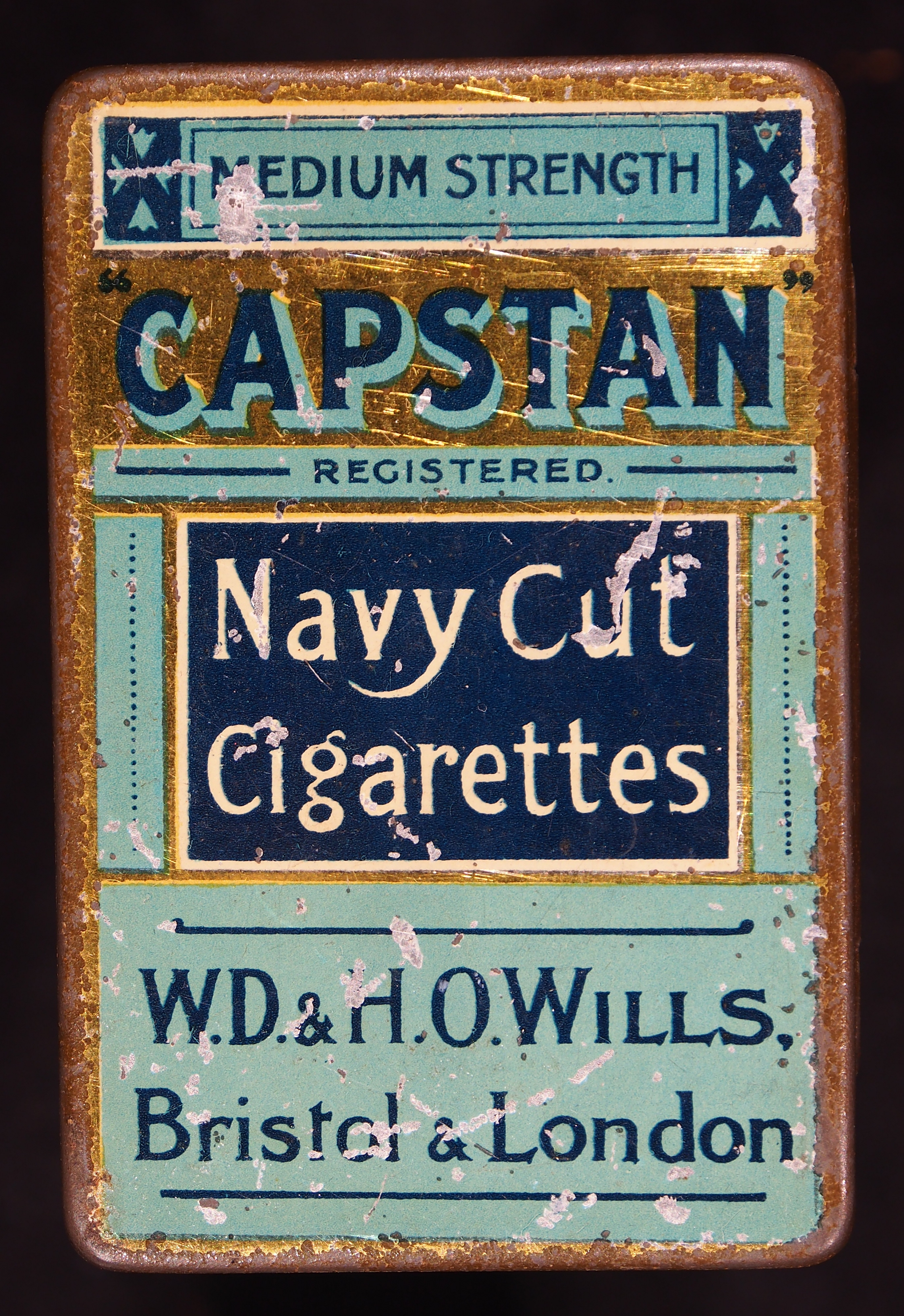 Very old packaging of a product that is not produced and not sold any more.